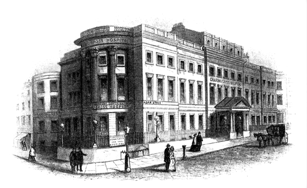 Old print of Charing Cross Hospital